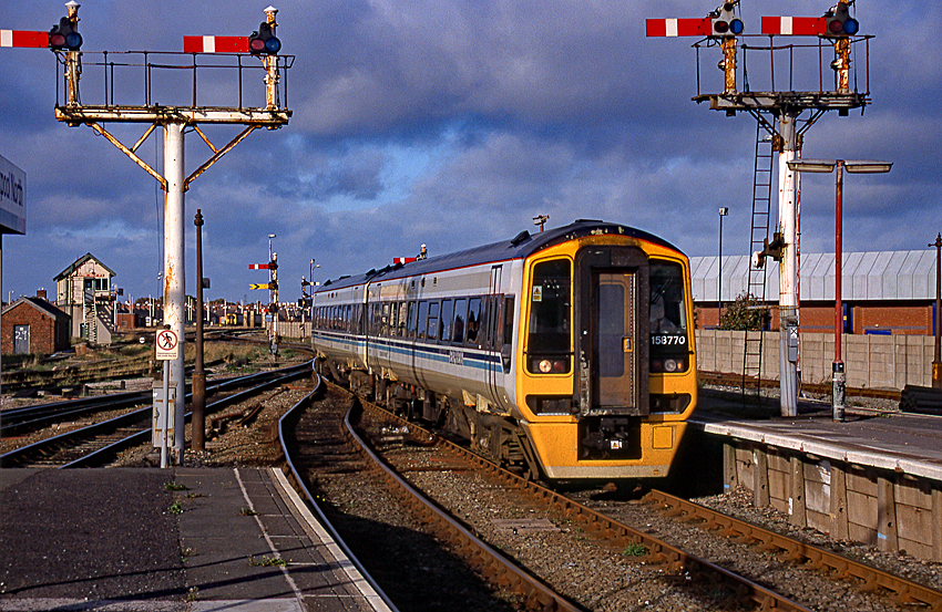 158770 in Regional Railways Express livery at Blackpool North consisting of vehicles 52770+57770. Scanned from a Fujichrome 35mm slide.